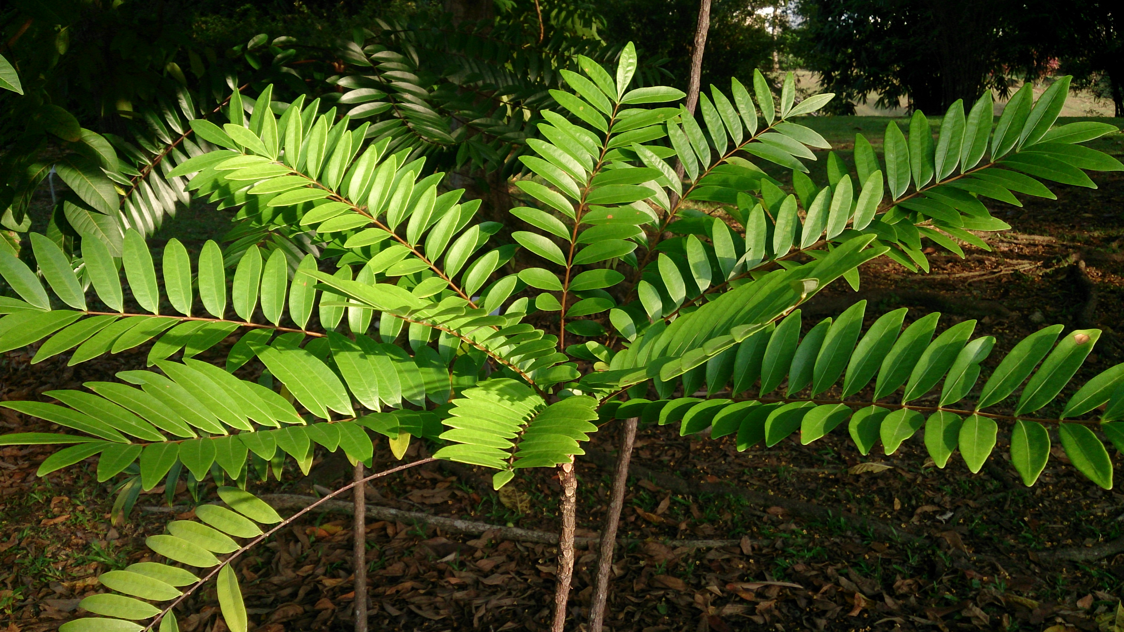 Eurycoma longifolia. Common names: Tongkat Ali. Ali's Umbrella. Origin: Peninsula Malaysia. Indonesia. Medicinal usage: Roots are taken to boost testosterone levels.